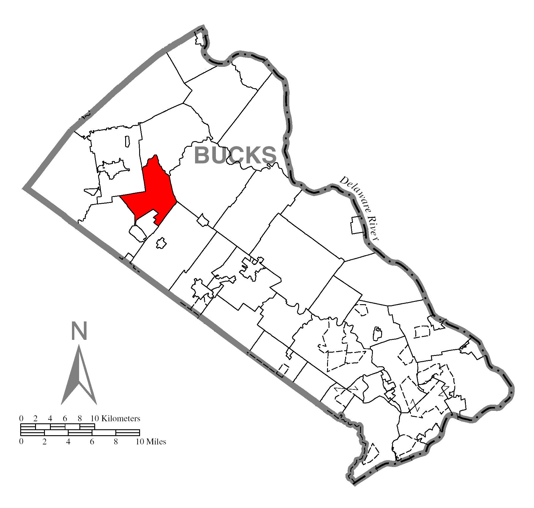 A map of Bucks County showing East Rockhill Township, Pennsylvania (alternate) highlighted on the map.